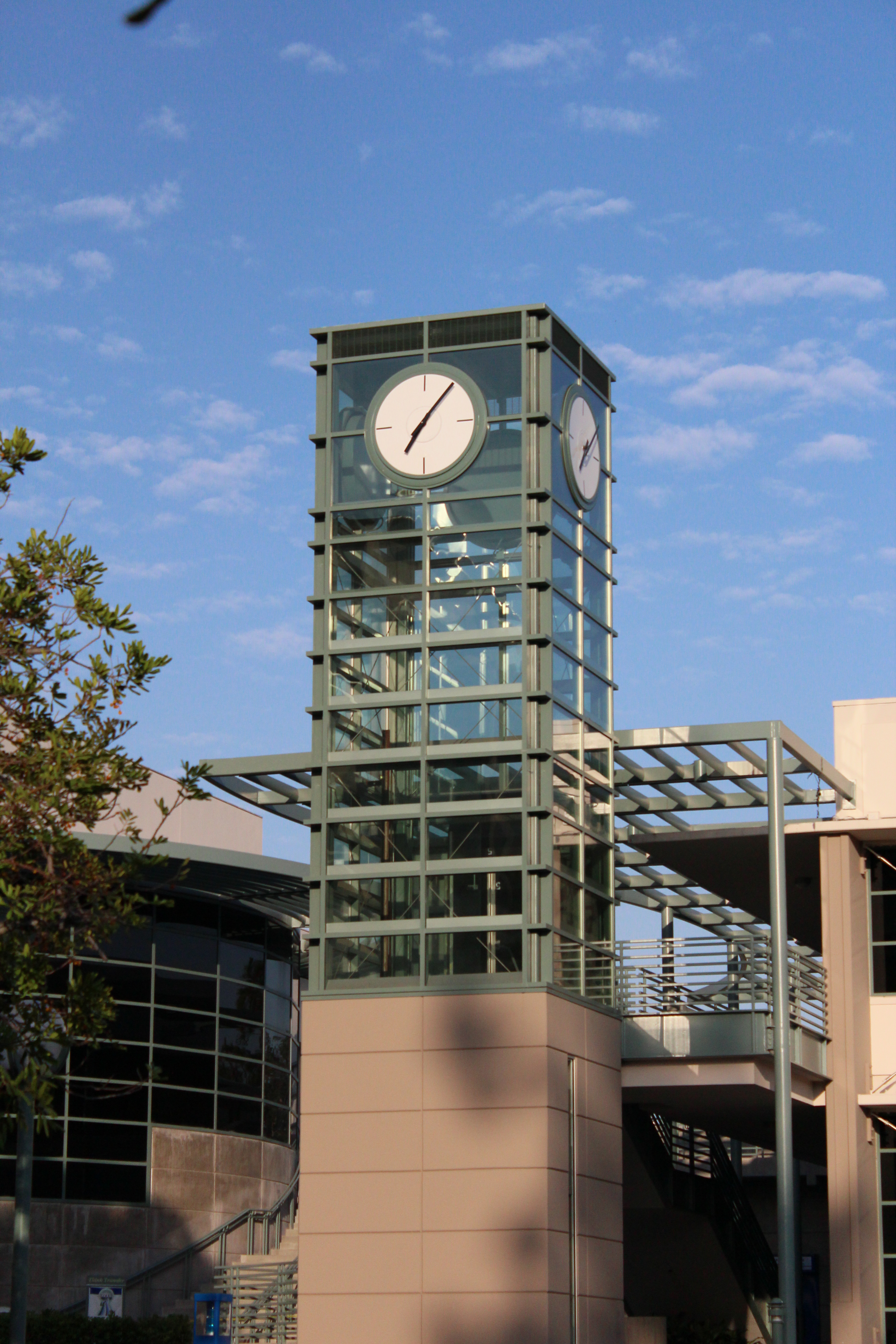 The newly built clock at Pasadena City College.